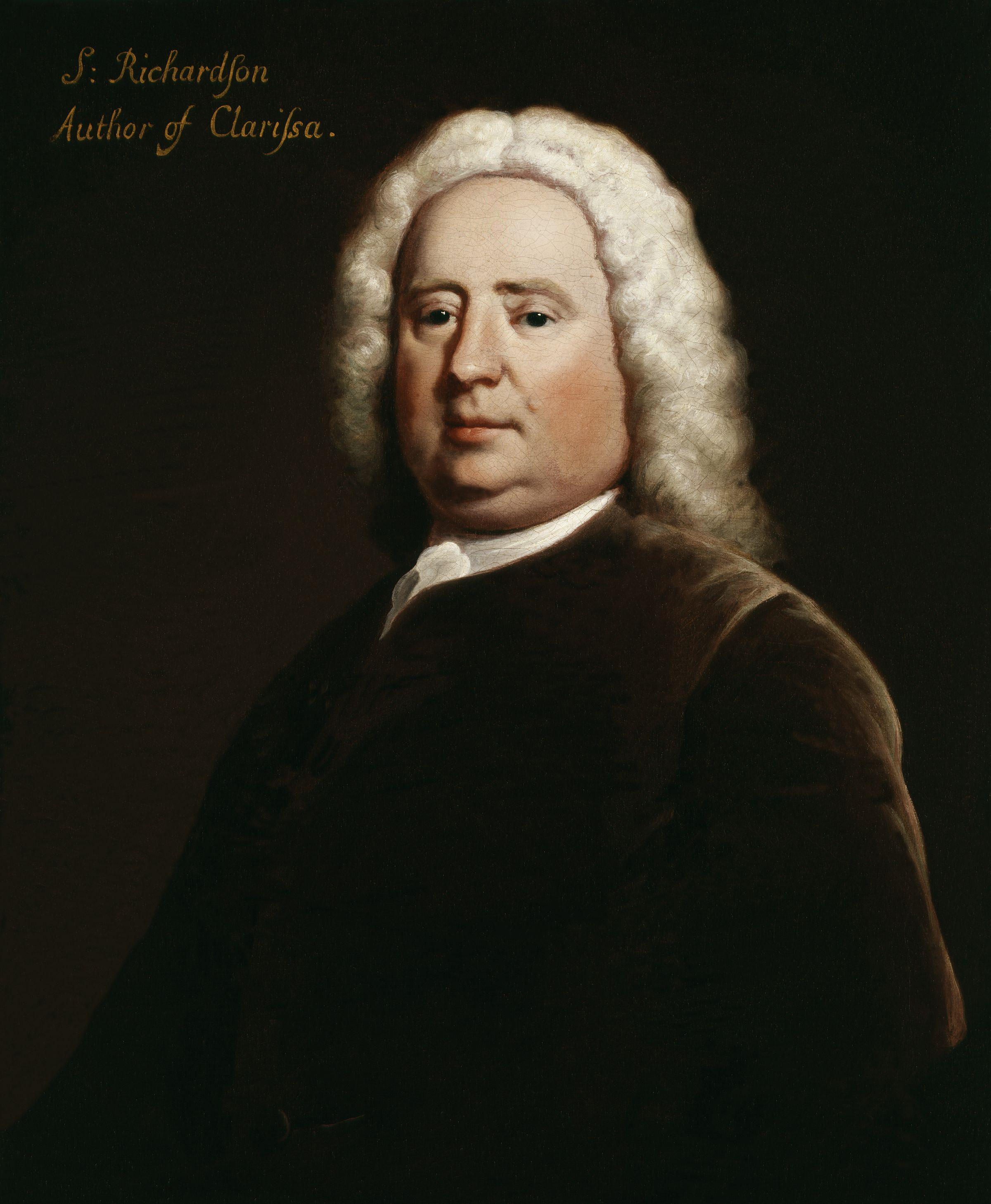 Samuel Richardson, by Joseph Highmore (died 1780). All images in this batch have been confirmed as author died before 1939 according to the official death date listed by the NPG.